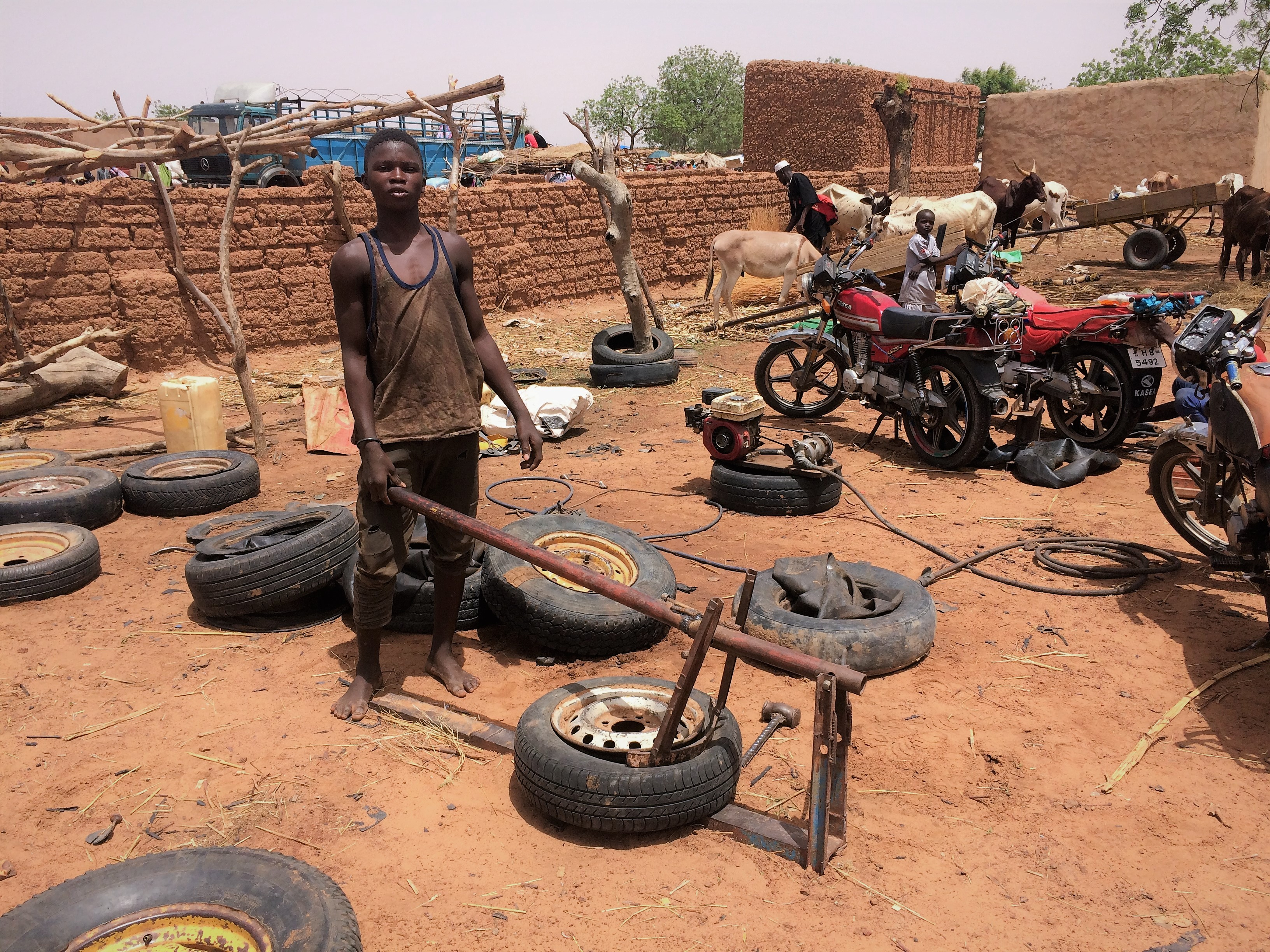 A tire repair shop in Kodo, a village in Niger (Fakara commune, Boboye department, Dosso region). Note the small air compressor.